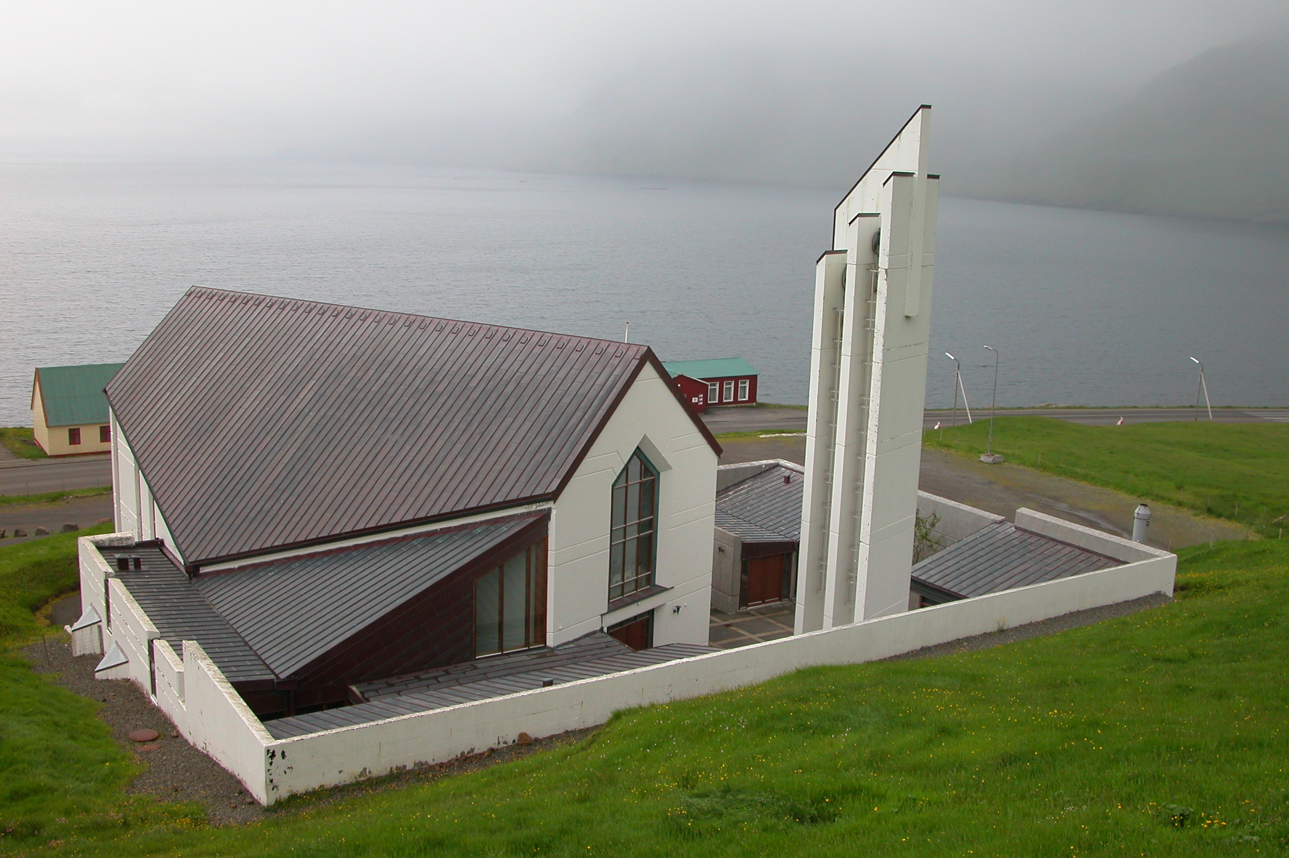 The new church of Gøta in Gøtugjógv on Eysturoy, Faroe Islands.